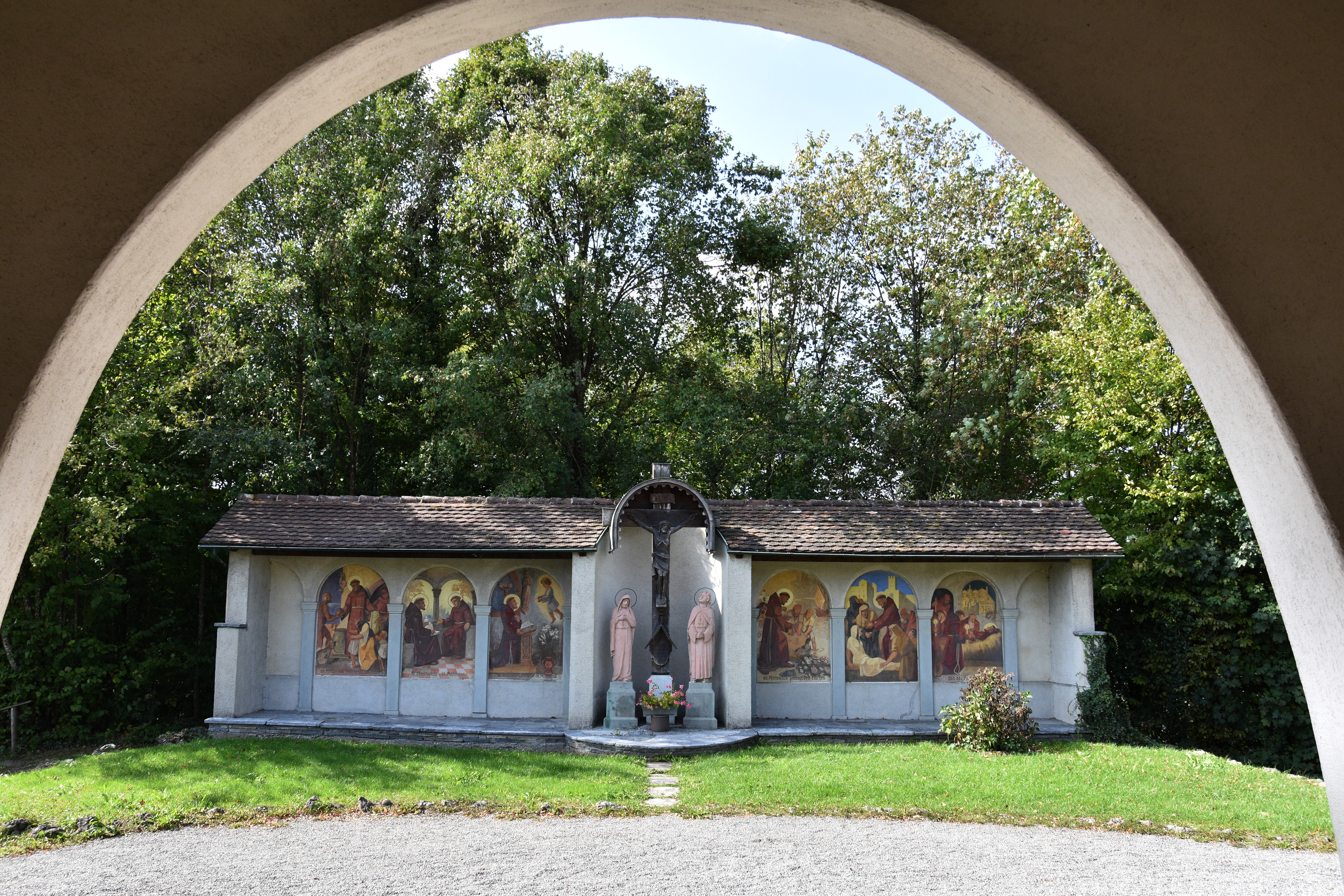 Emauskapelle